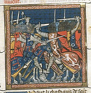 Benevento